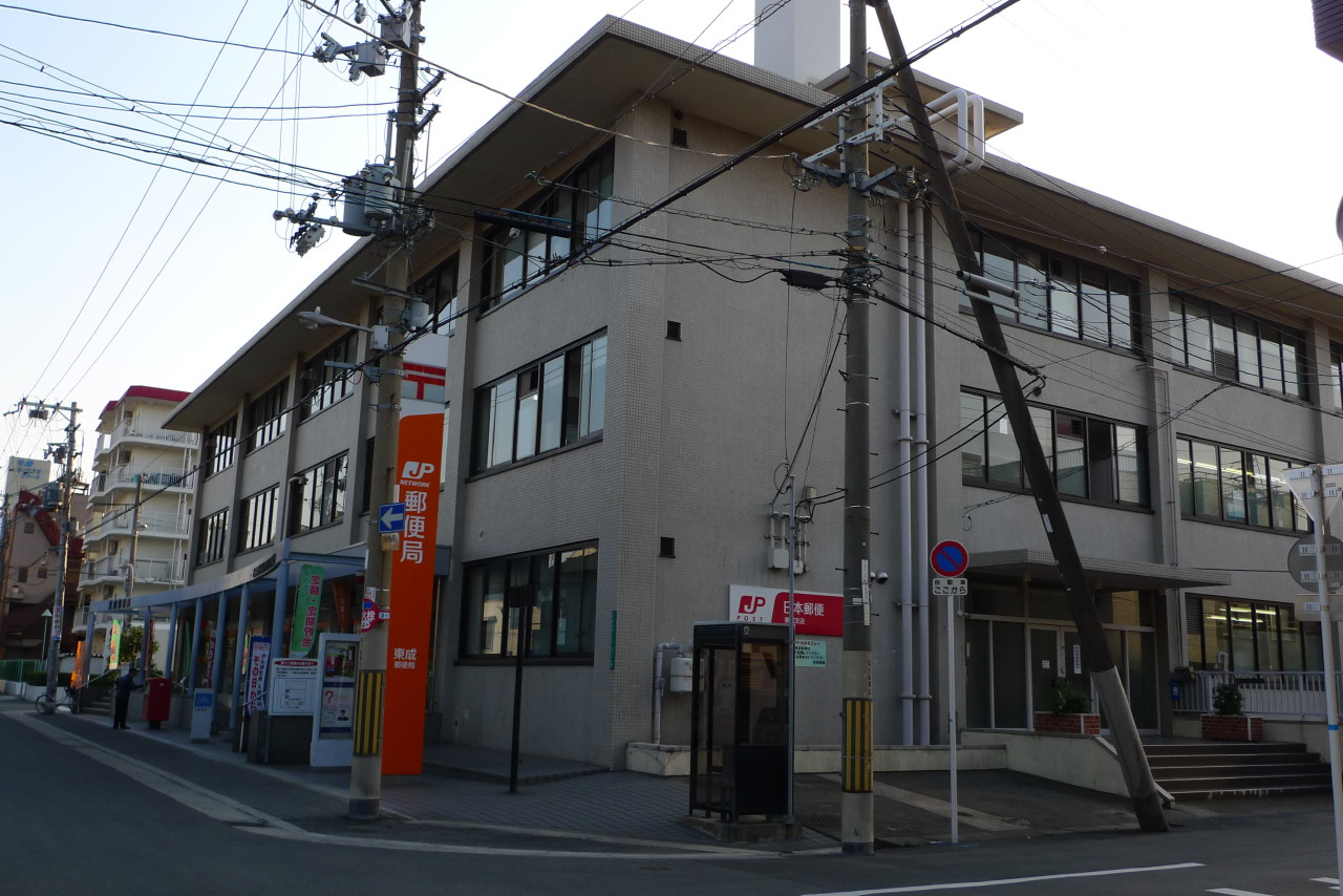 Higashinari Post Office Department building